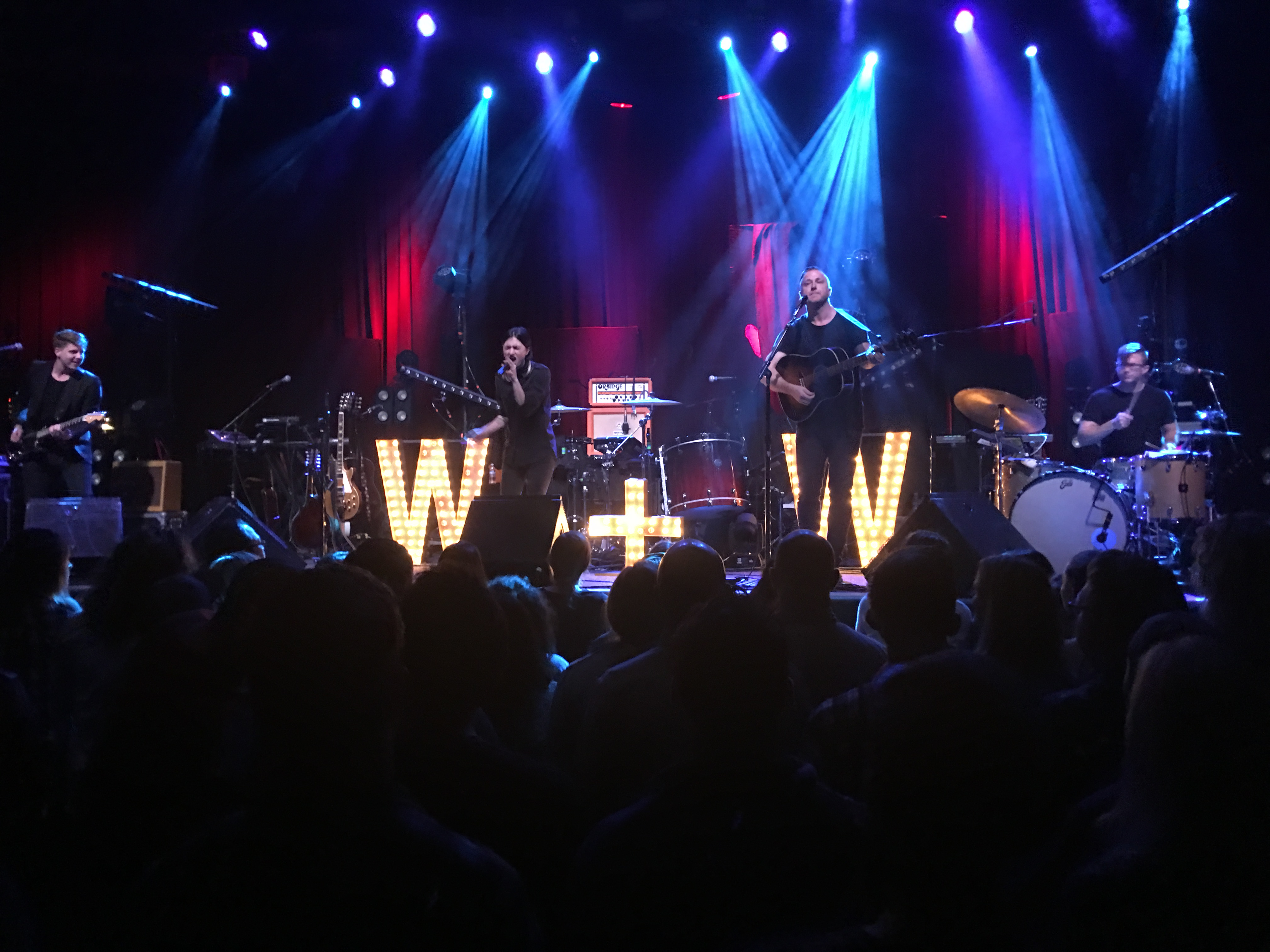 Patricia Lynn (left) and Dwight Baker (right) of The Wind + The Wave